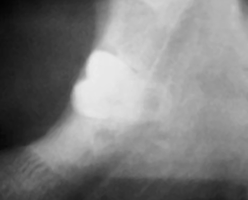 Radiograph of impacted wisdom tooth with an intimate association with the inferior alveolar nerve